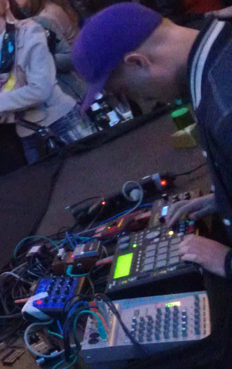 Daniel Savio performing live in Stockholm at the release party for his self titled album, May 2012.